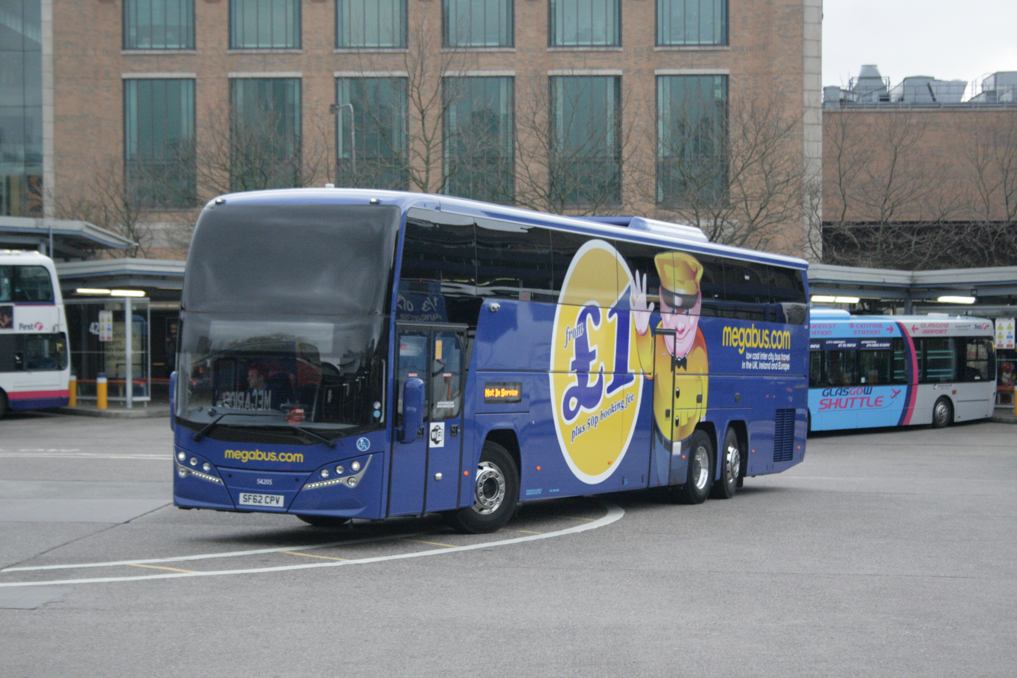 SF62 CPV, a Volvo B11RT with Plaxton Elite i bodywork, rolls out of Buchanan bus station on an empty run back to the depot.